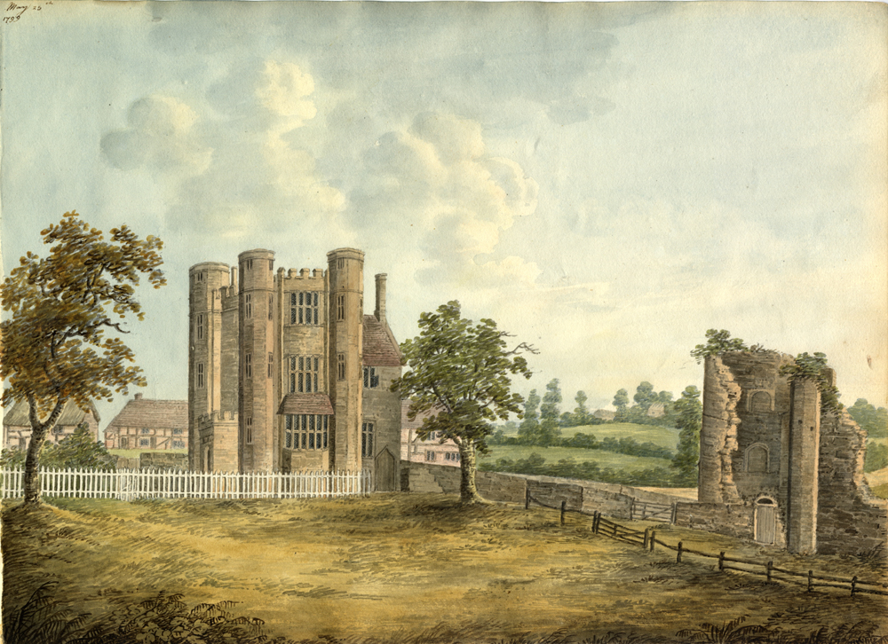 A watercolour painting of Kenilworth Castle